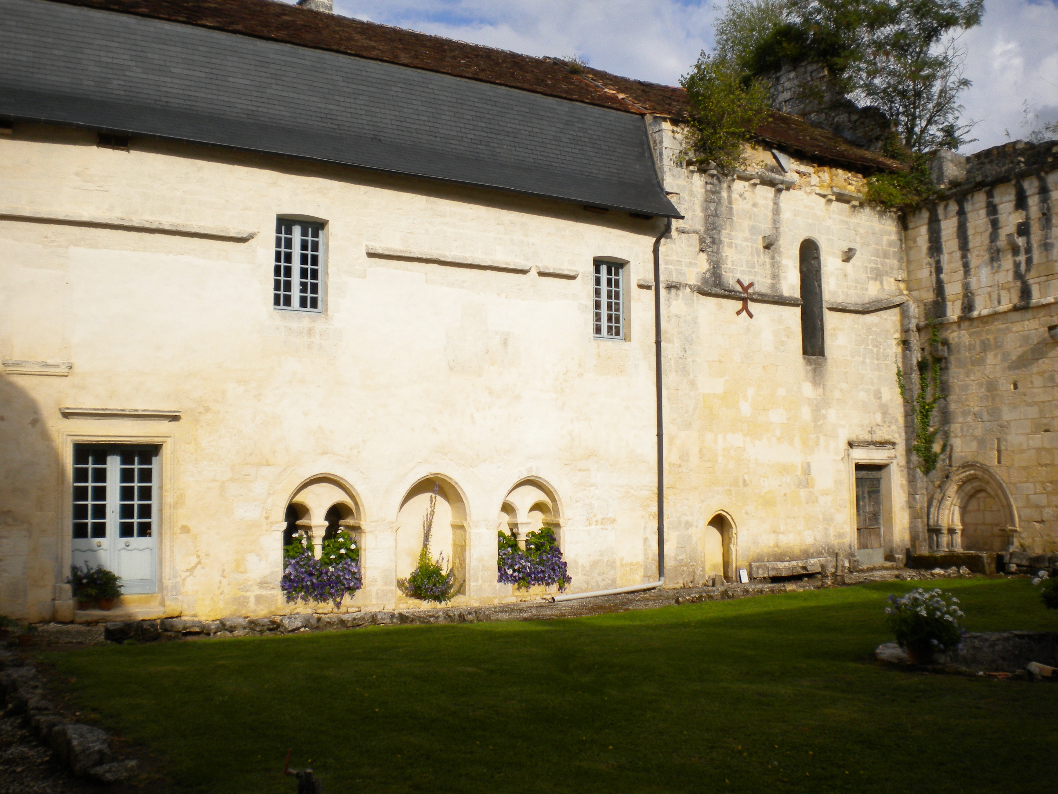 East wing of the Grosbot Abbey, taken from the cloister. The two arcuate windows with the door in the middle stem from the original chapter house. On the right the northern transept. The east wing was rebuilt during the 17th century.